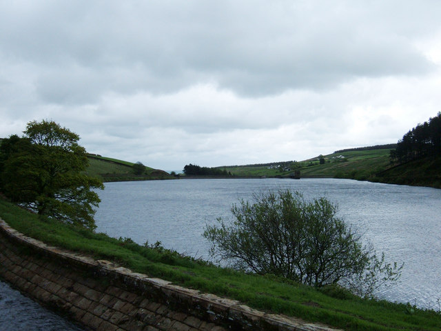 Lower Ogden Reservoir. View looking east. The reservoir is about half a mile to the west of the village of Barley. The northing grid line bisects the reservoir so the left hand (north) side is in SD8140 whilst the right hand (south) side is in SD8139.